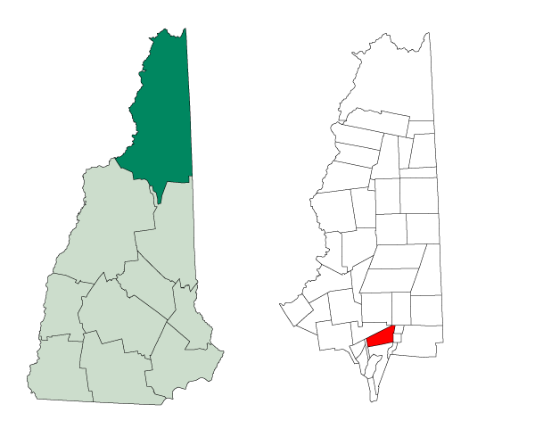 Map of a municipality in Coos County, New Hampshire